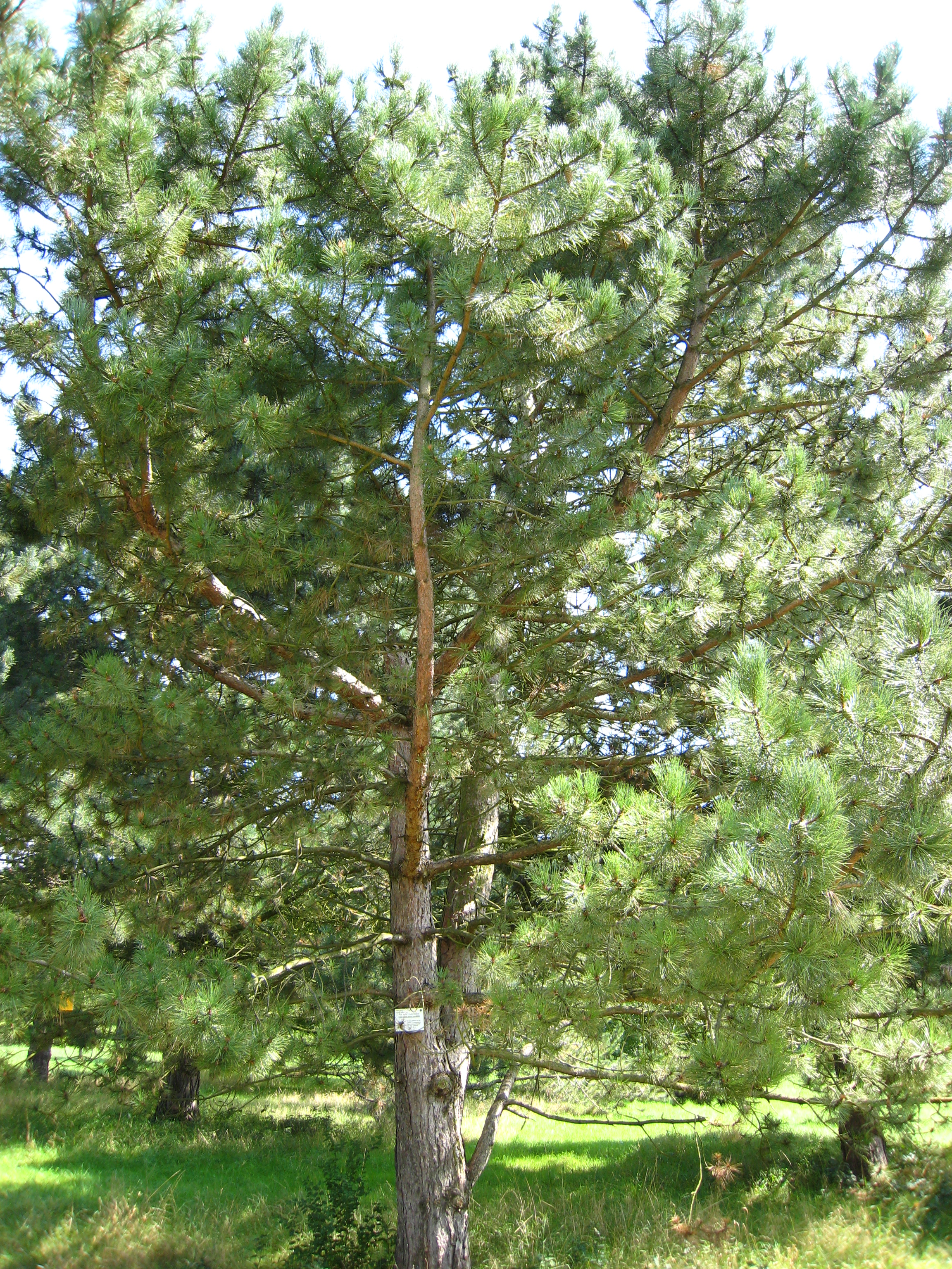 Pinus nigra subsp. nigra in the Arboretum de Chèvreloup in Rocquencourt